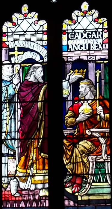 Central portion of a 19th century stained glass window in Bath Abbey depicting King Edgar of England being crowned by Dunstan, Archbishop of Canterbury. Edgar was crowned by Dunstan at Bath, and the service, devised by Dunstan himself, forms the basis of the present-day British coronation ceremony.